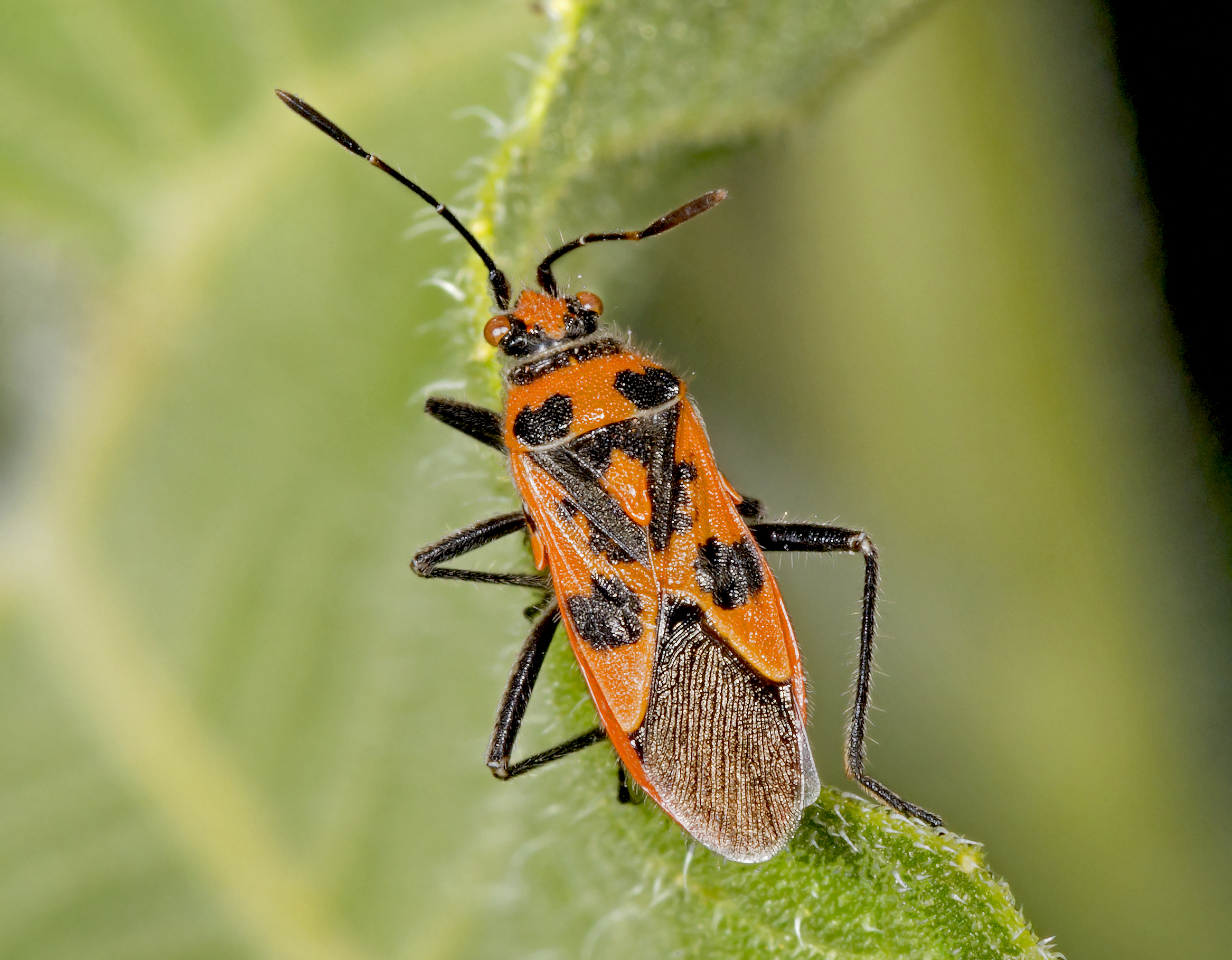 Scentless Plant Bugs, dorsal side.